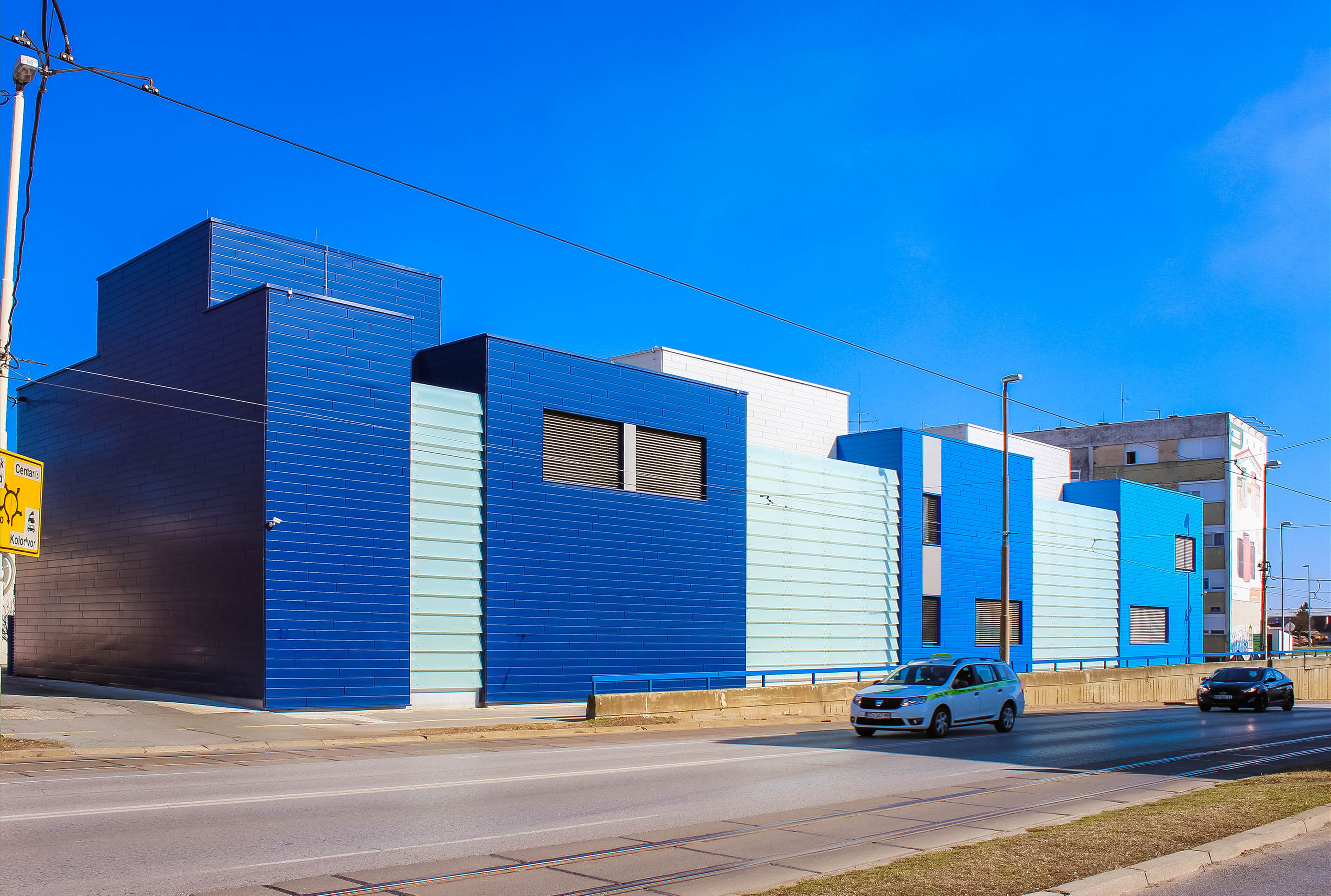 School